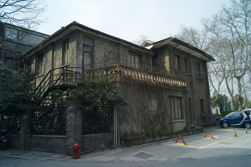 The former Residence of Mao Yisheng (1896－1989) — Hangzhou (formerly transliterated as Hangchow). A protected Hang Zhou Historic House — in the city of Hangzhou, in Eastern China. Constructed in the 1930s, it is a two-story brick villa with slope-roof and in plain-brick style, featuring a blending of the Chinese and the Western styles. Dr. Mao Yisheng was a Chinese structural engineer, an expert on bridge construction, and a social activist in China.